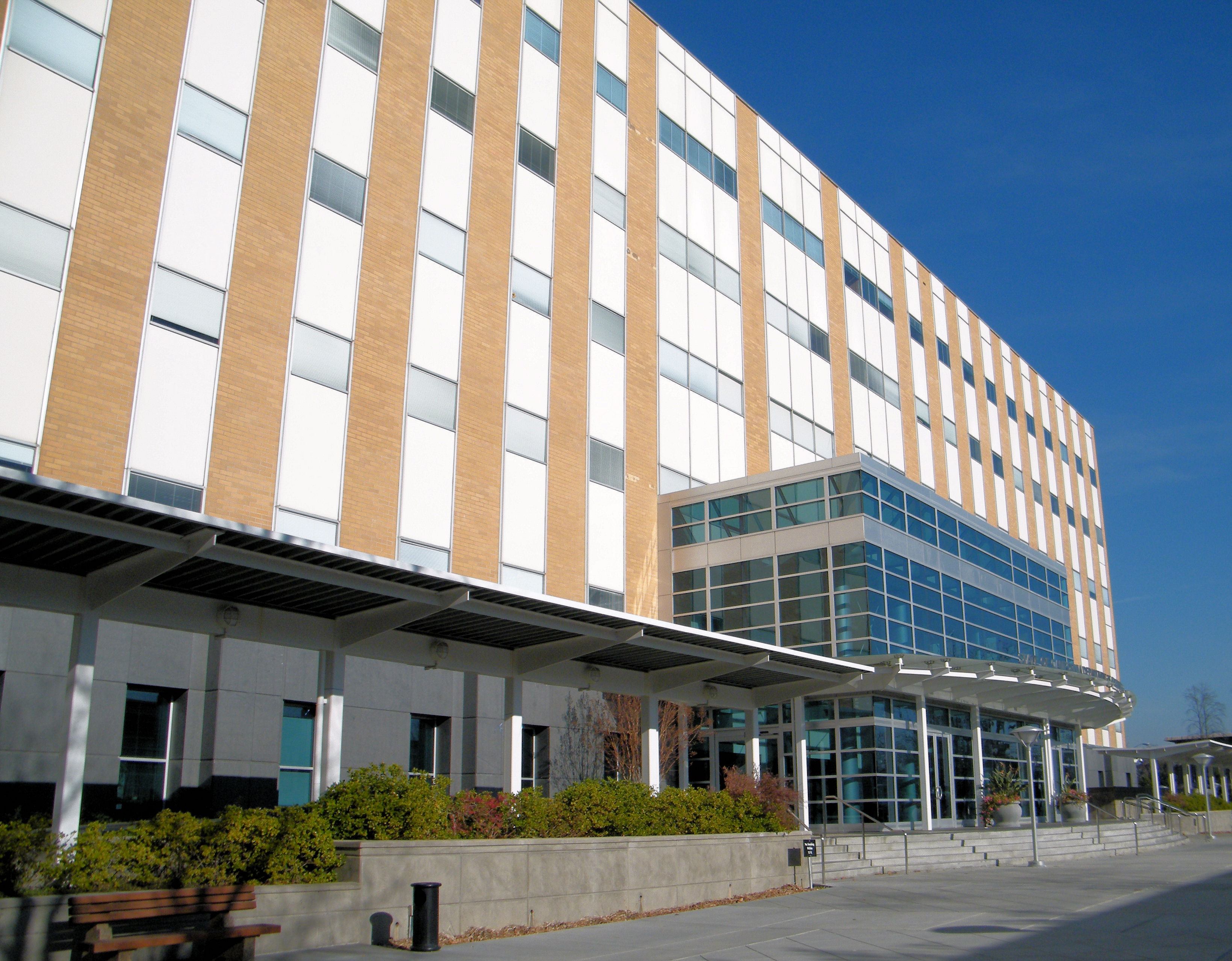 California Department of Motor Vehicles headquarters in Sacramento.